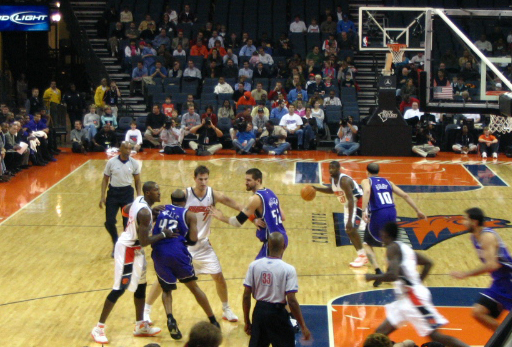 Bonzi Wells guards Gerrald Wallace of the Charlotte Bobcats in a 2005 game verses the Sacramento Kings.